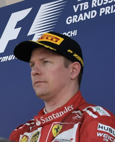 2017 Russian Grand Prix